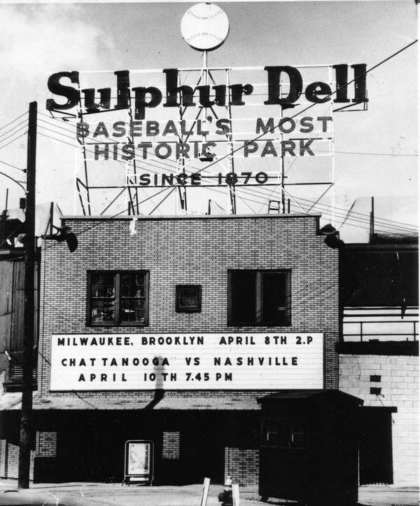 The marquee outside Sulphur Dell, a minor league baseball park in Nashville, Tennessee, shown in the 1950s/60s